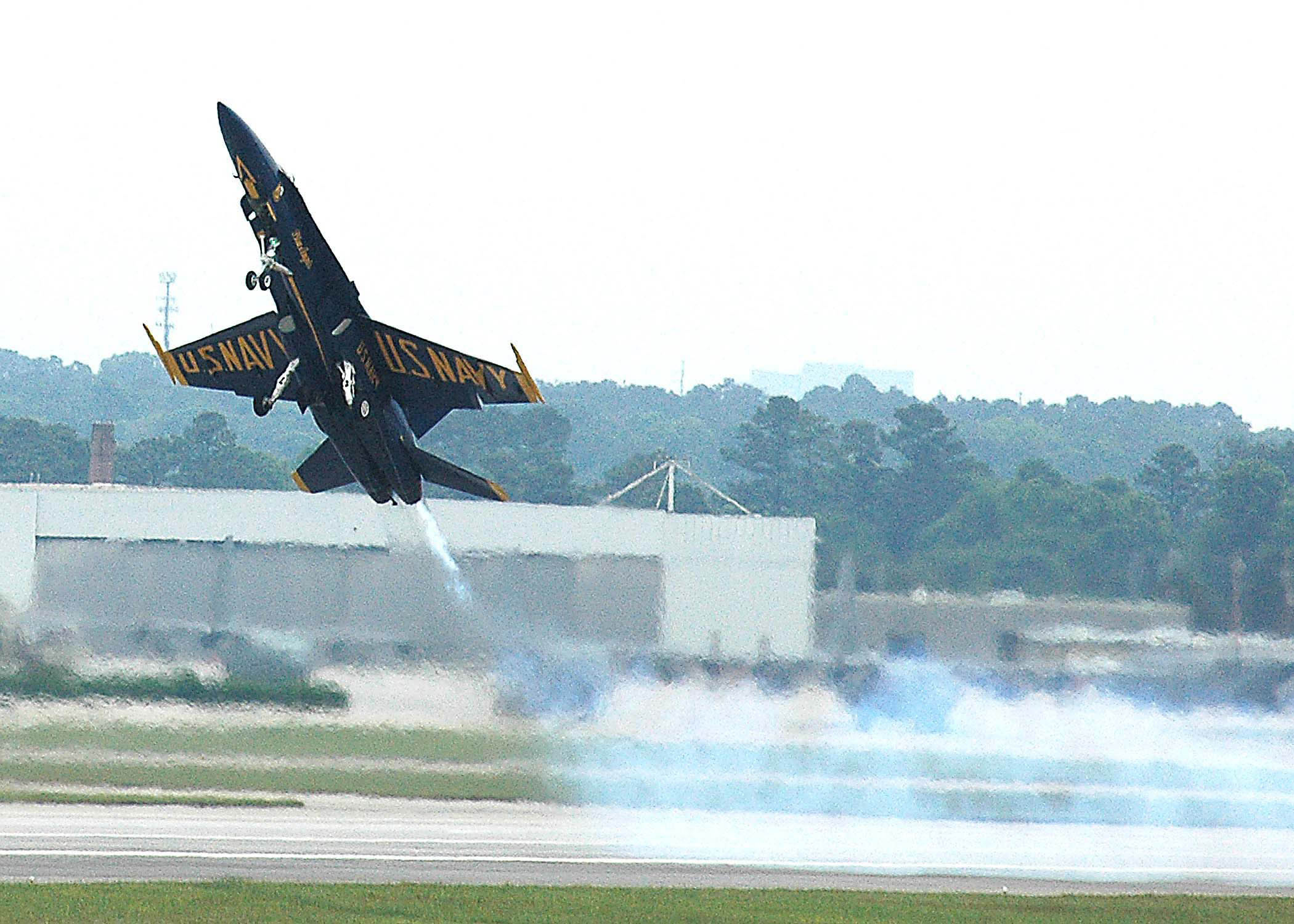 An aircraft assigned to the Blue Angels flight demonstration team takes off from Naval Air Station Atlanta, Ga., April 29, 2006.